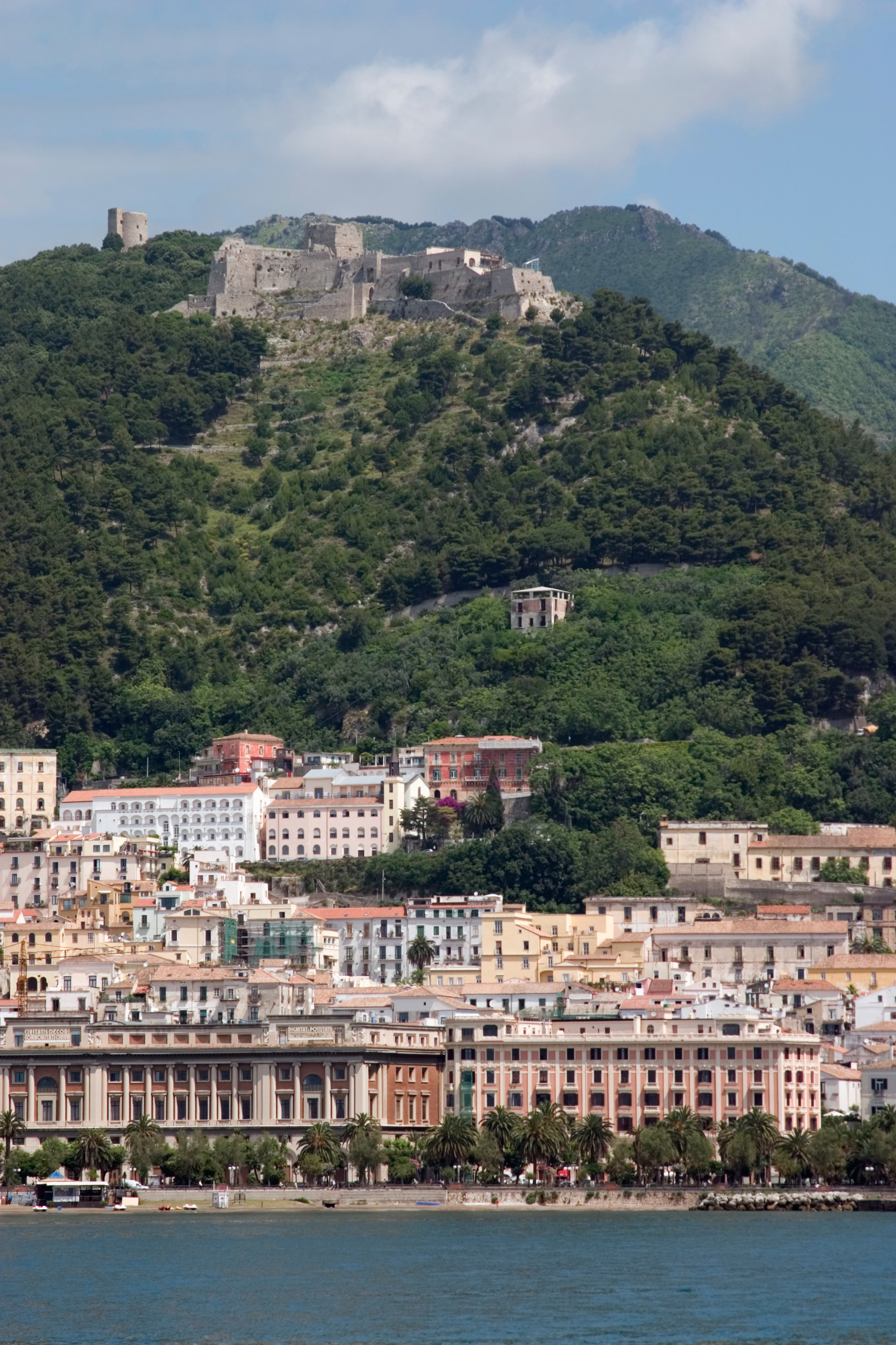 Castle of Arechi and old town of Salerno, Salerno, Italy